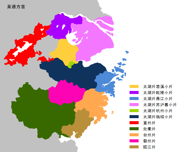 Map showing distribution and extent of Wu dialects.